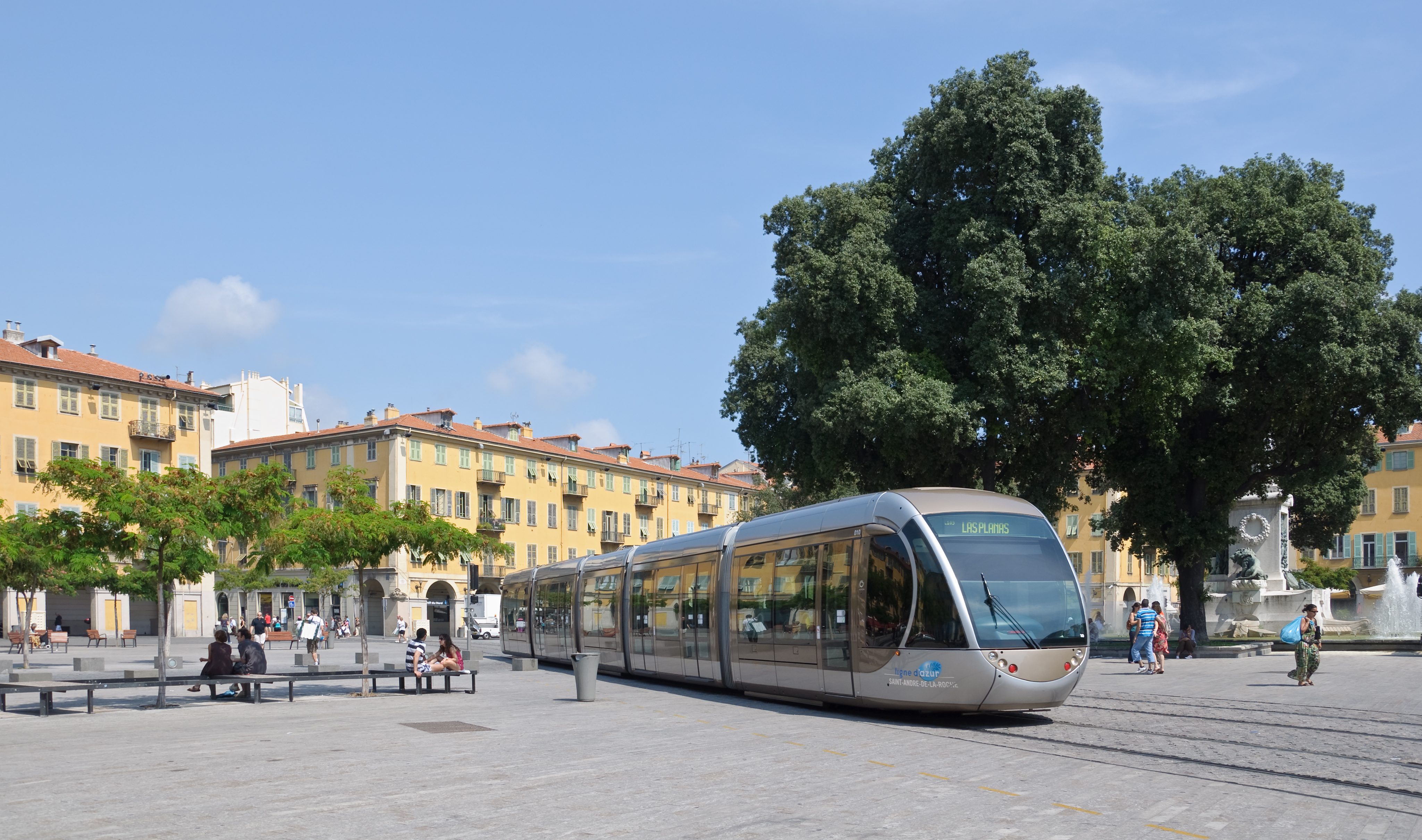 The Nice tramway on Place Garibaldi in Nice, on the French Riviera. The tramcar uses onboard nickel metal hydride batteries to cross this historical square.